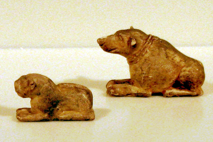 Statuettes of reclining lions. (gamepieces-?)